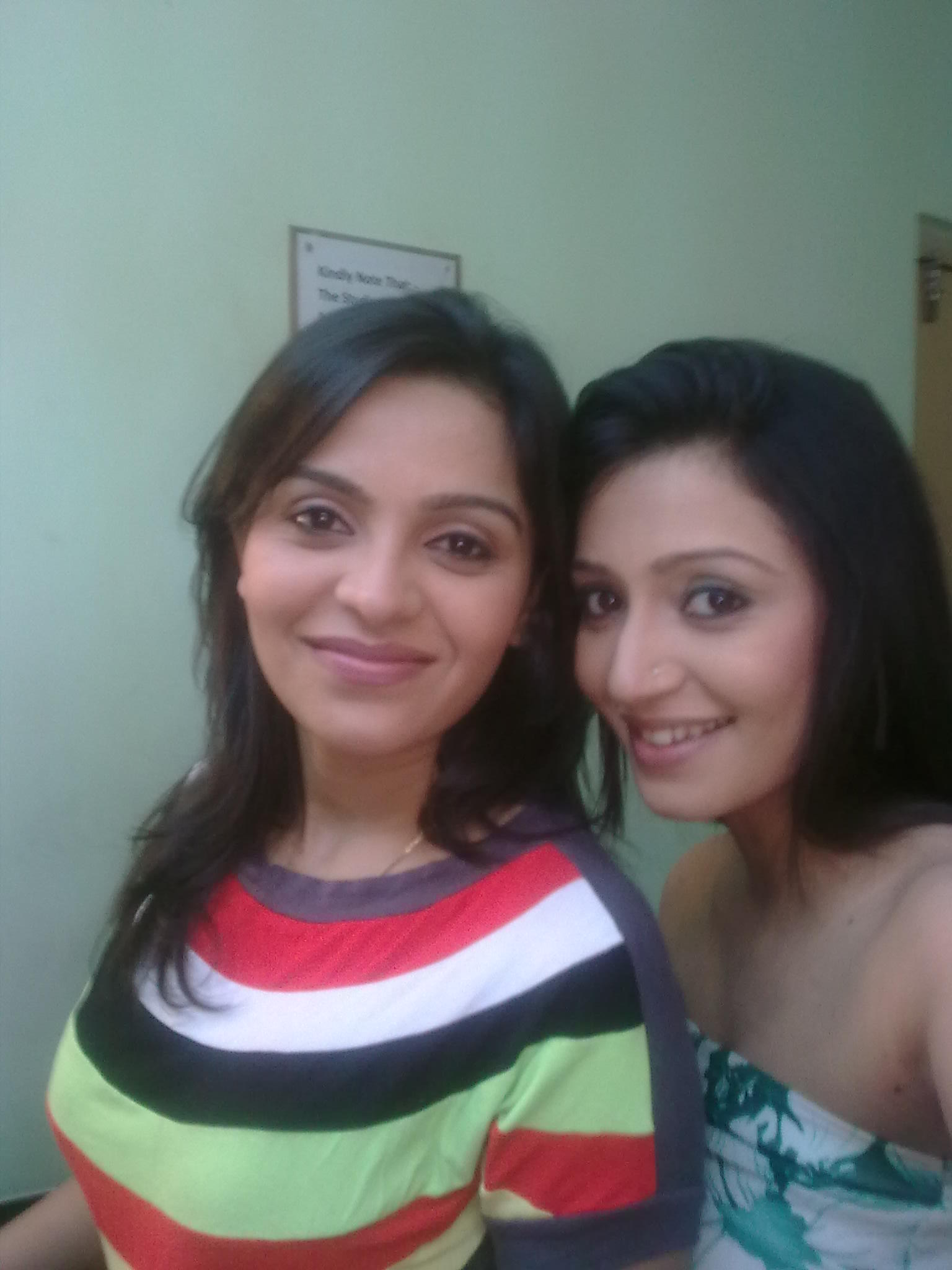 On the sets of Bajega Band Baaja with Ami Trivedi